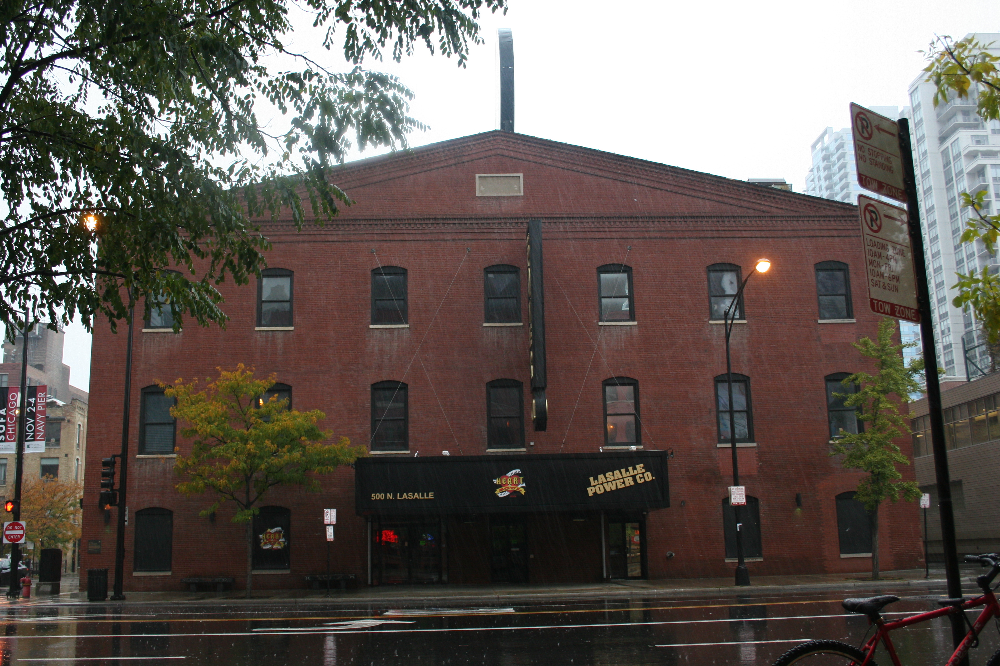 LaSalle Street Cable Car Powerhouse in River North, Chicago, IL